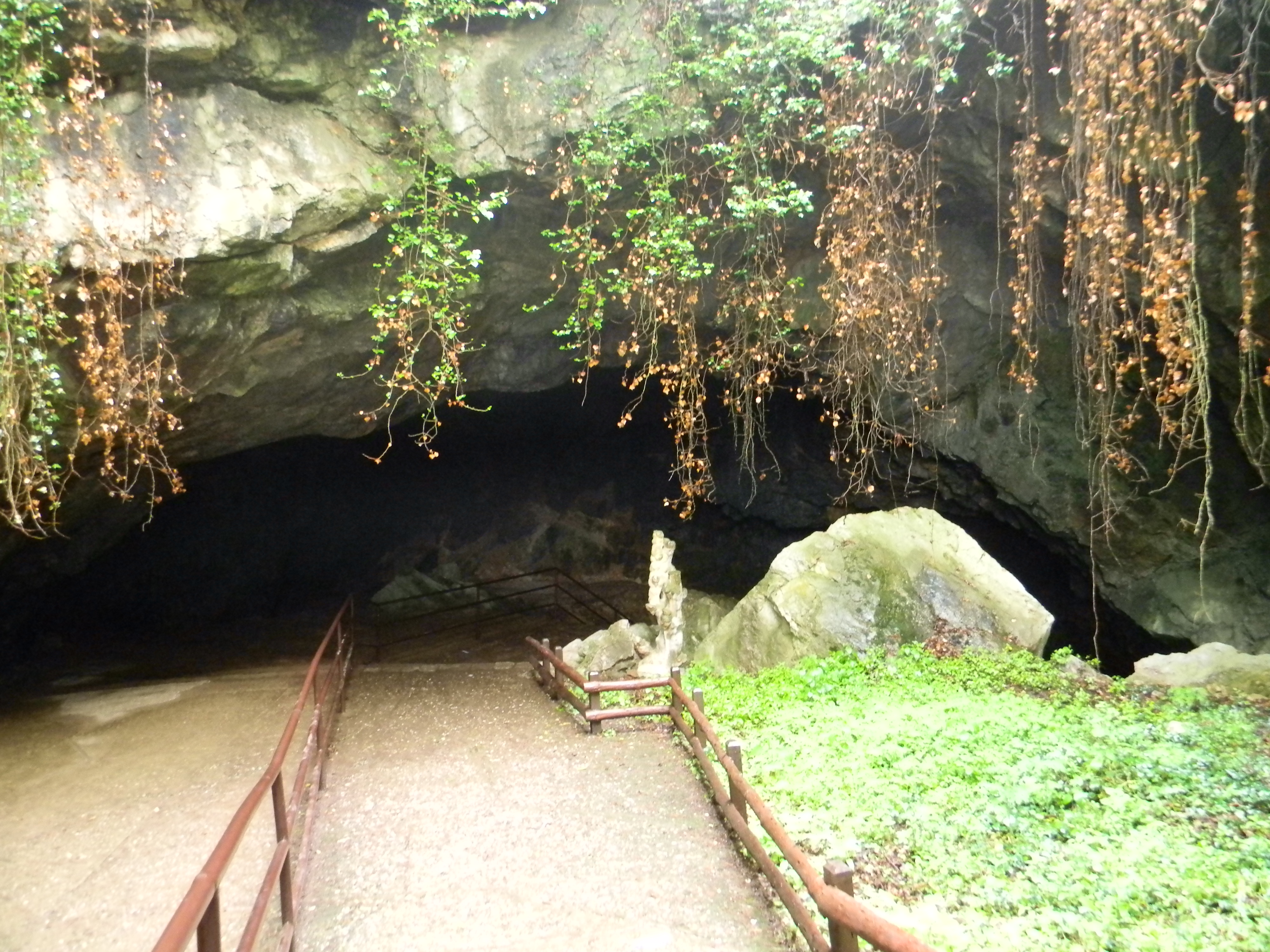 Resavska pećina, entrance